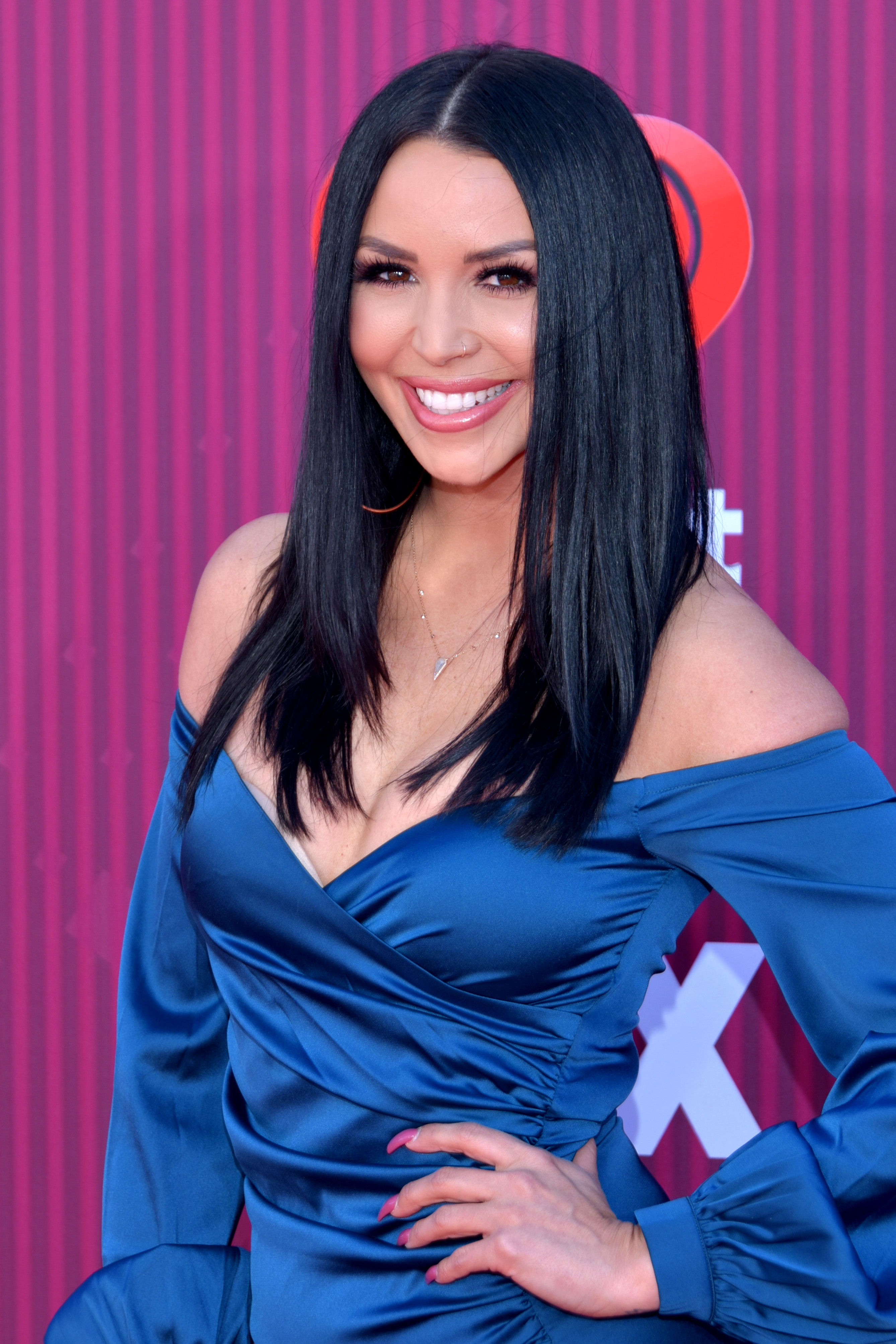 Scheana Marie Shay at the 2019 iHeartRadio Music Awards in Los Angeles California on March 14, 2019 - Photo by Glenn Francis of